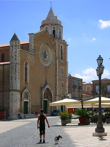 The Duomo of Lucera